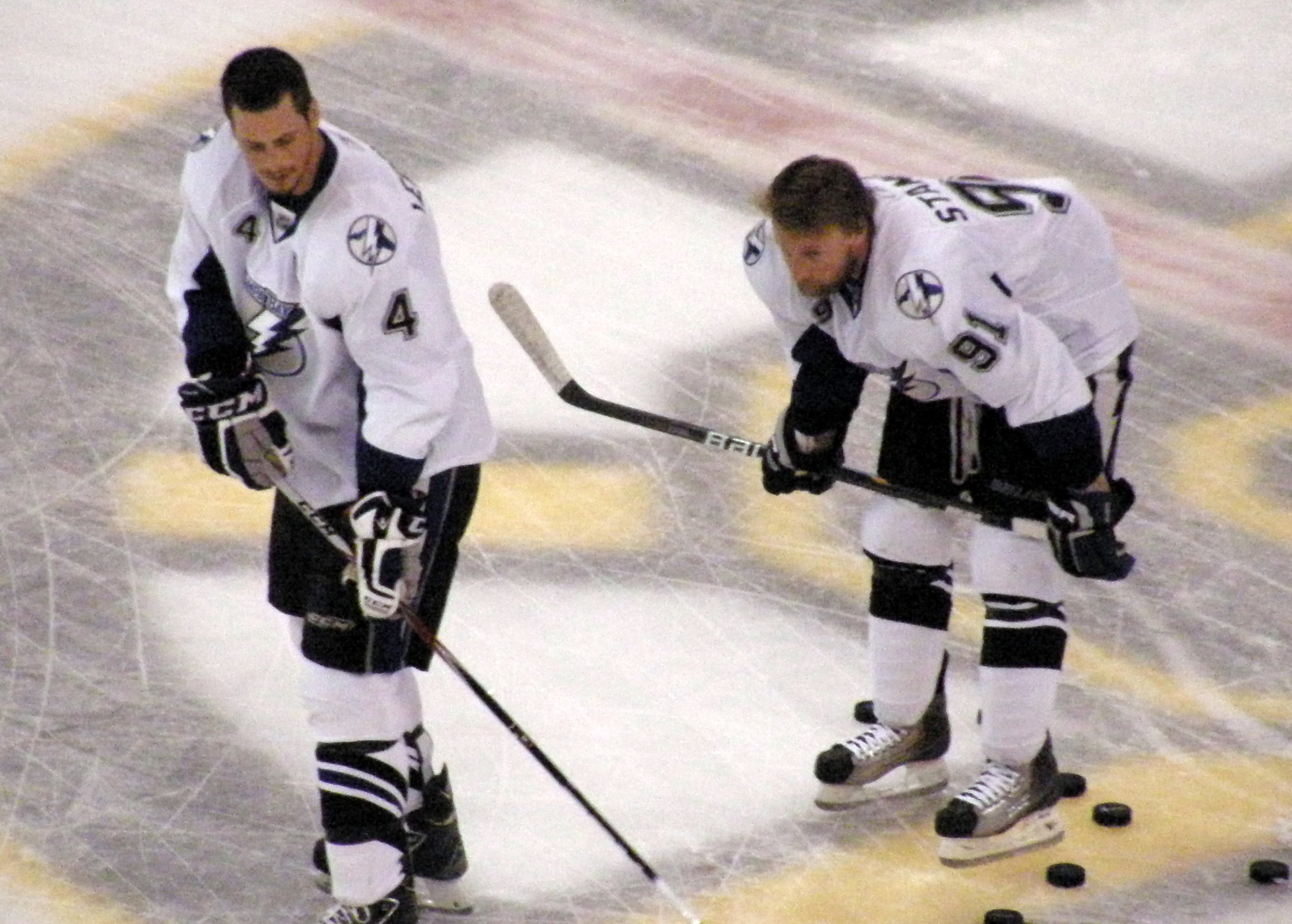 4 Vincent Lecavalier C-TBL, 91 Steven Stamkos C-TBL Eastern Conference Finals, Game 2, May 17, 2011. Tampa Bay Lightning at Boston Bruins, TD Banknorth Garden